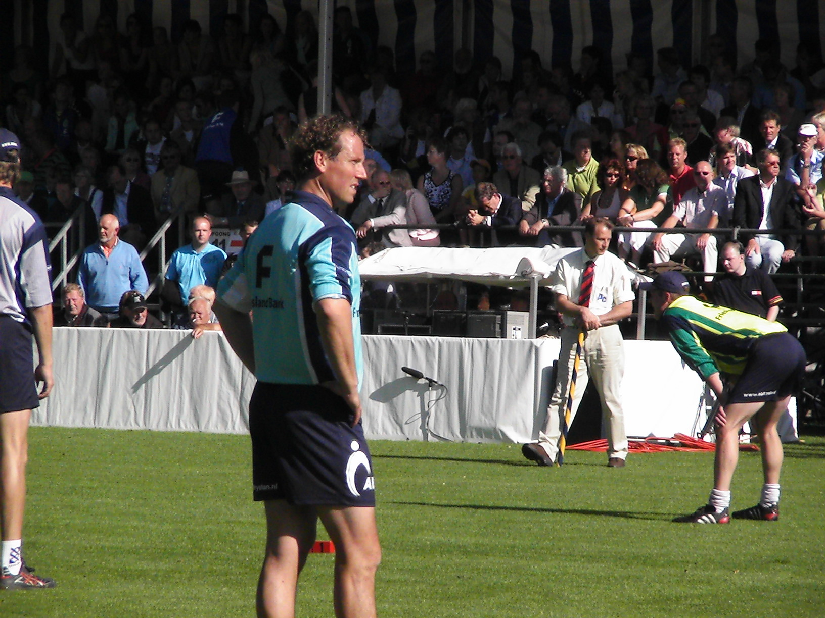 Simon Minnesma, Frisian handball player, during PC 2007